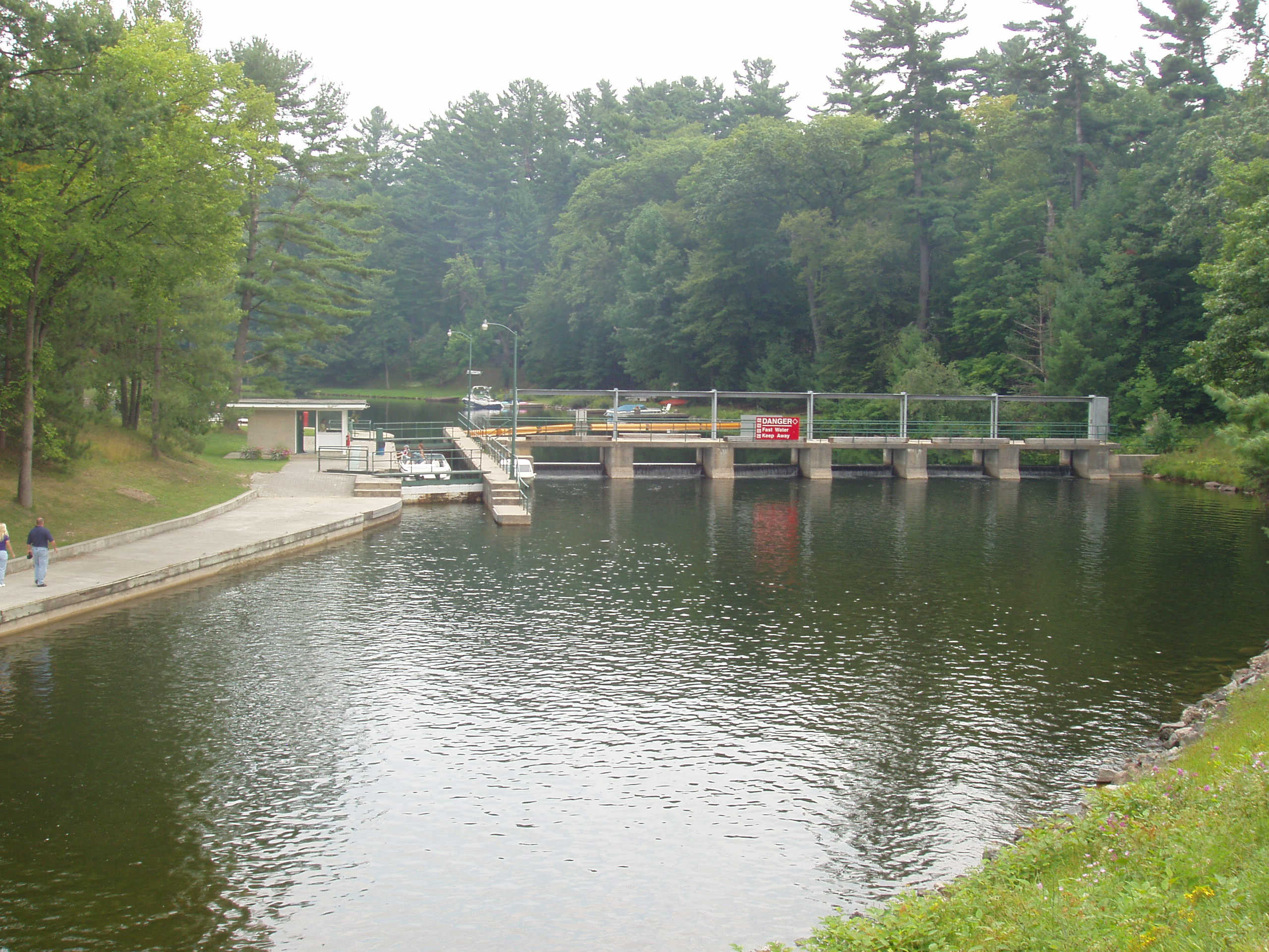 Canal lock at Port Carling.